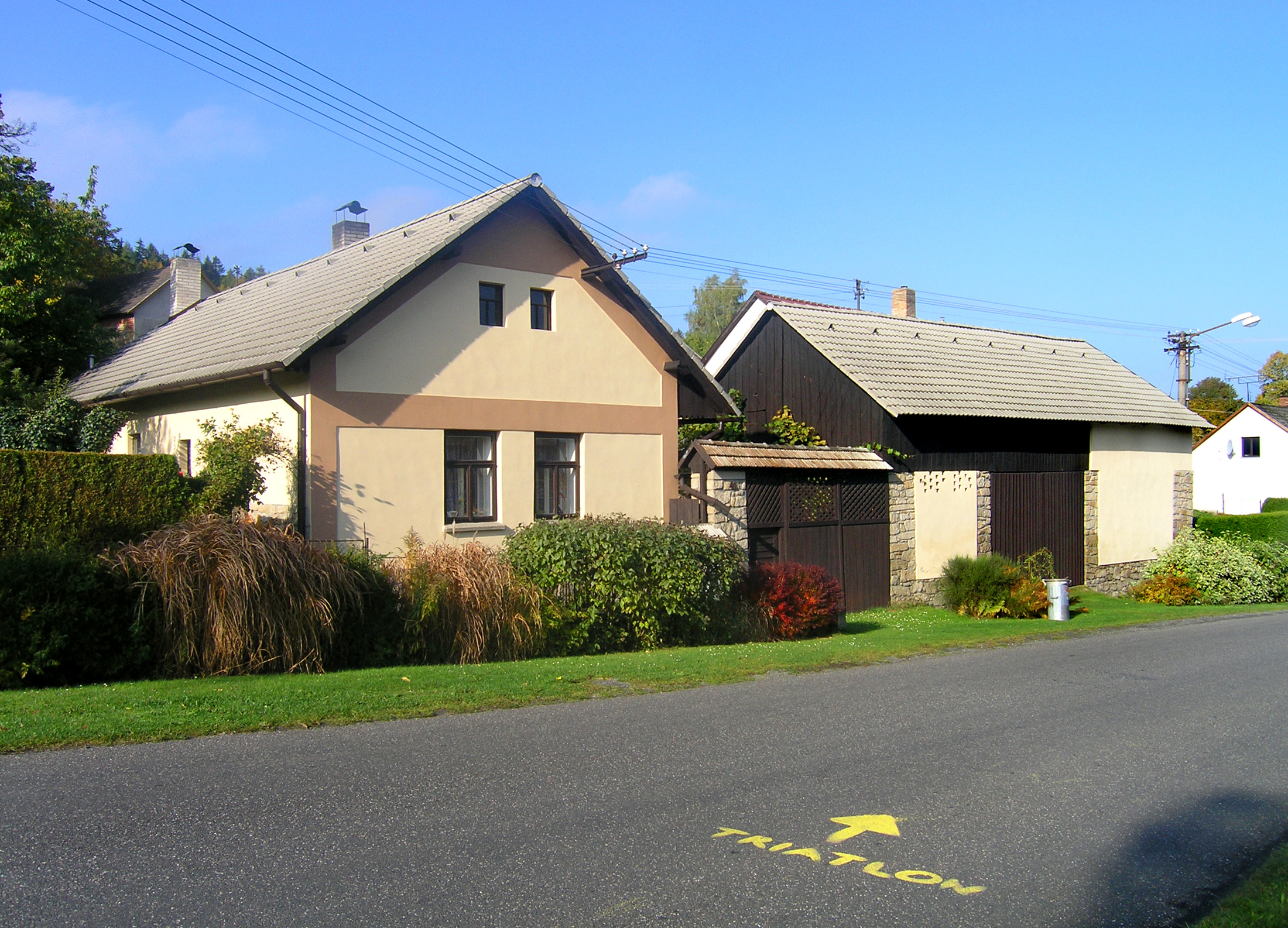 Main street in Kouty, Havlíčkův Brod District, Czech Republic